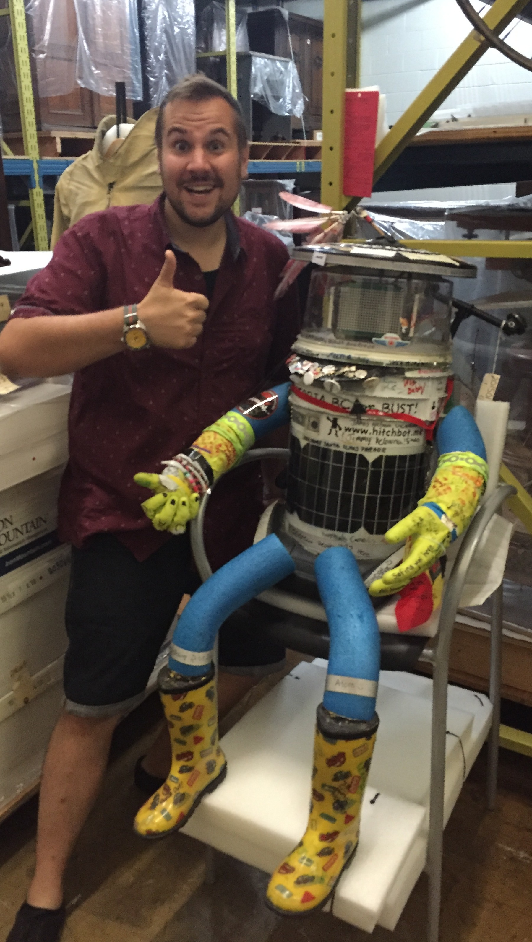 The original hitchBOT is currently housed in collections at the Canada Science and Technology Museum, located in Ottawa, Ontario.